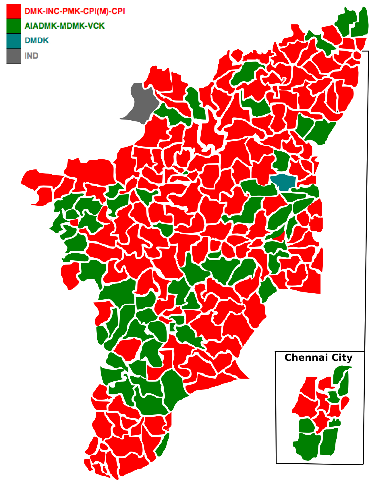 made election map using borders from ECI website using Inkscape.